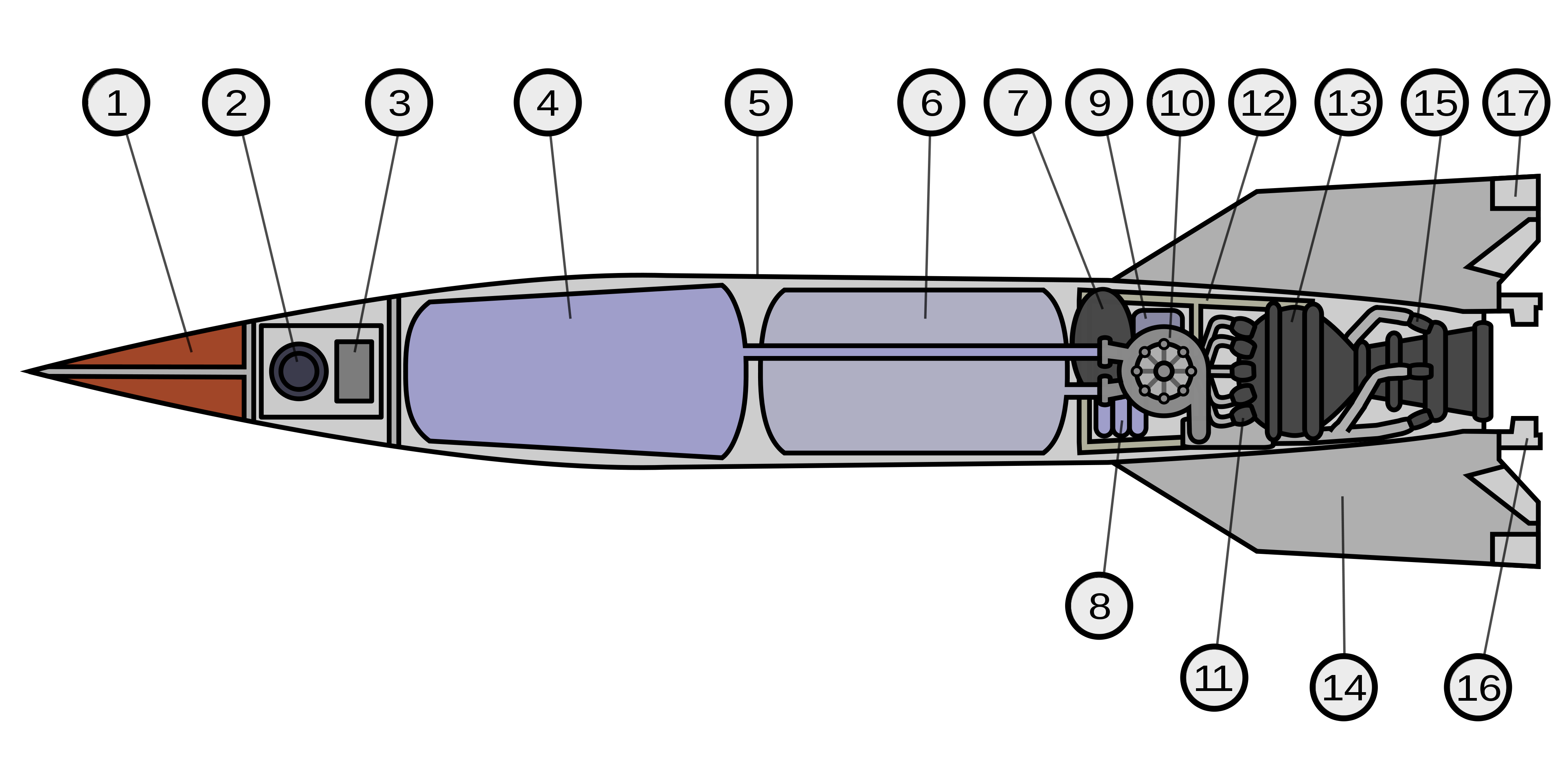 Schematic of the V2 rocket: Explosive Warhead/Payload Gyroscopic system Guidance and radio control Ethanol tank Fuselage Liquid Oxygen tank Hydrogen Peroxide tank Pressurised Nitrogen cylinder Hydrogen Peroxide reaction chamber Turbopump Ethanol/Liquid Oxygen injectors. Engine Chassis Combustion Chamber Empennage (x4) Nozzle External jet defelectors External control fins.